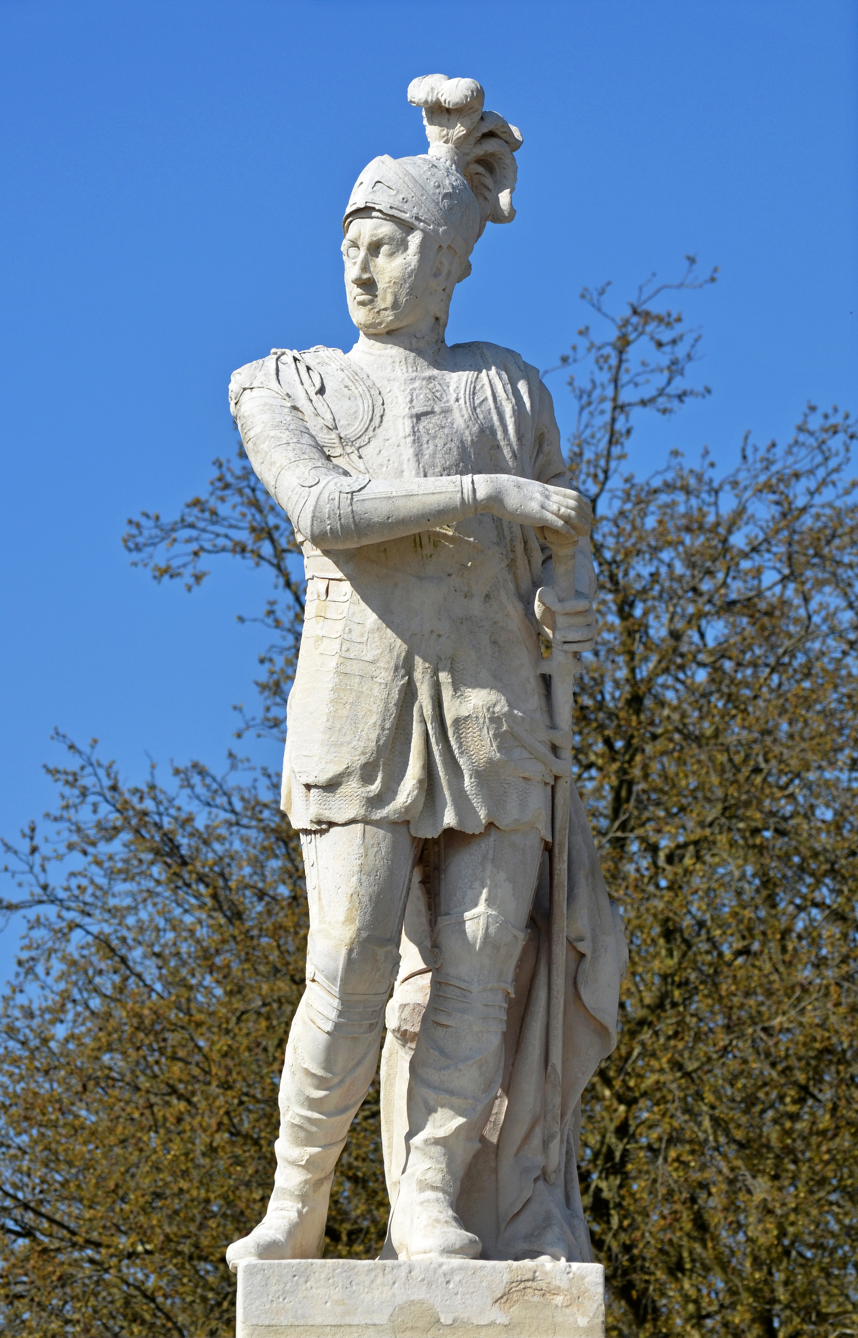 Olivier de Clisson, statue by Johann Dominik Mahlknecht - Cours Saint-André - Nantes, France